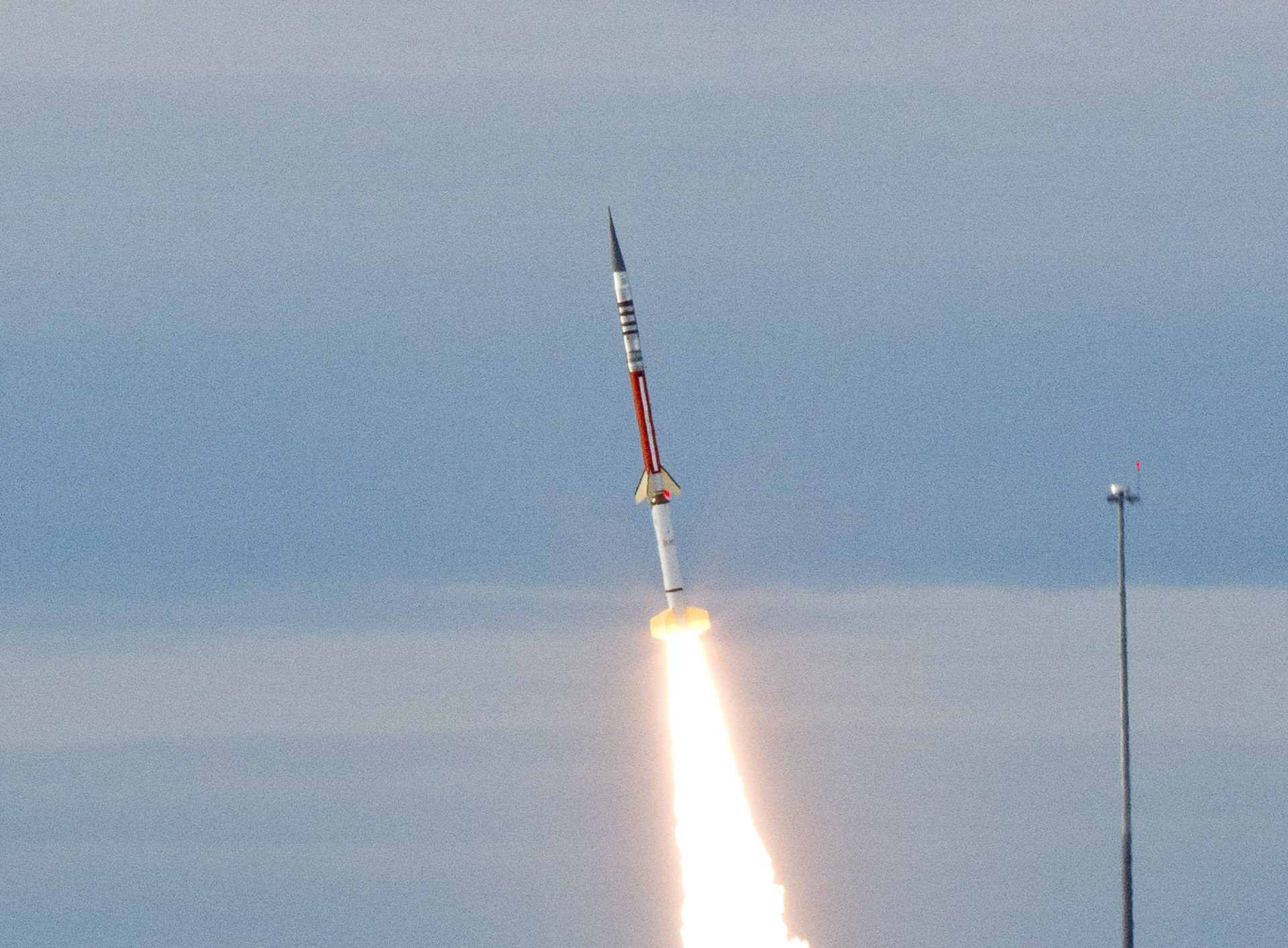 The Terrier-Malmute sounding rocket. The first stage booster consists of a Terrier MK 12 Mod 1 rocket motor. The second stage propulsion unit is a Thiokol Malemute TU-758 rocket motor which is designed especially for high altitude research rocket applications.